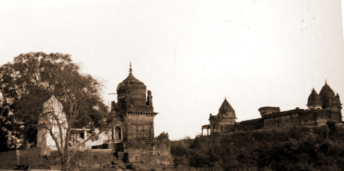 Vaishnav-Shaiva temples and ghats constructed by the Beohar-dynasty in c. 16-18th century C.E. in LametaGhat near Jubbulpore / Jabalpur, alongside the eastern waterfront of holy river Nerbudda / Narmada, upstream of the Marble Gorge BheraGhat. While most of the Beohar-temples at LametaGhat are of Gond-period, at least one temple-complex is of Kalchuri-period, contemporary with the renowned Chausath-Yogini shrine at BheraGhat, constructed by Beohar Golok Simha. Temples are under Sri Radhakrasna Private Trust with Beohar Dr Anupam Sinha as its Managing-Trustee, whereas their old waterfront has recently been renovated by funds from Narmada Valley Development Authority.